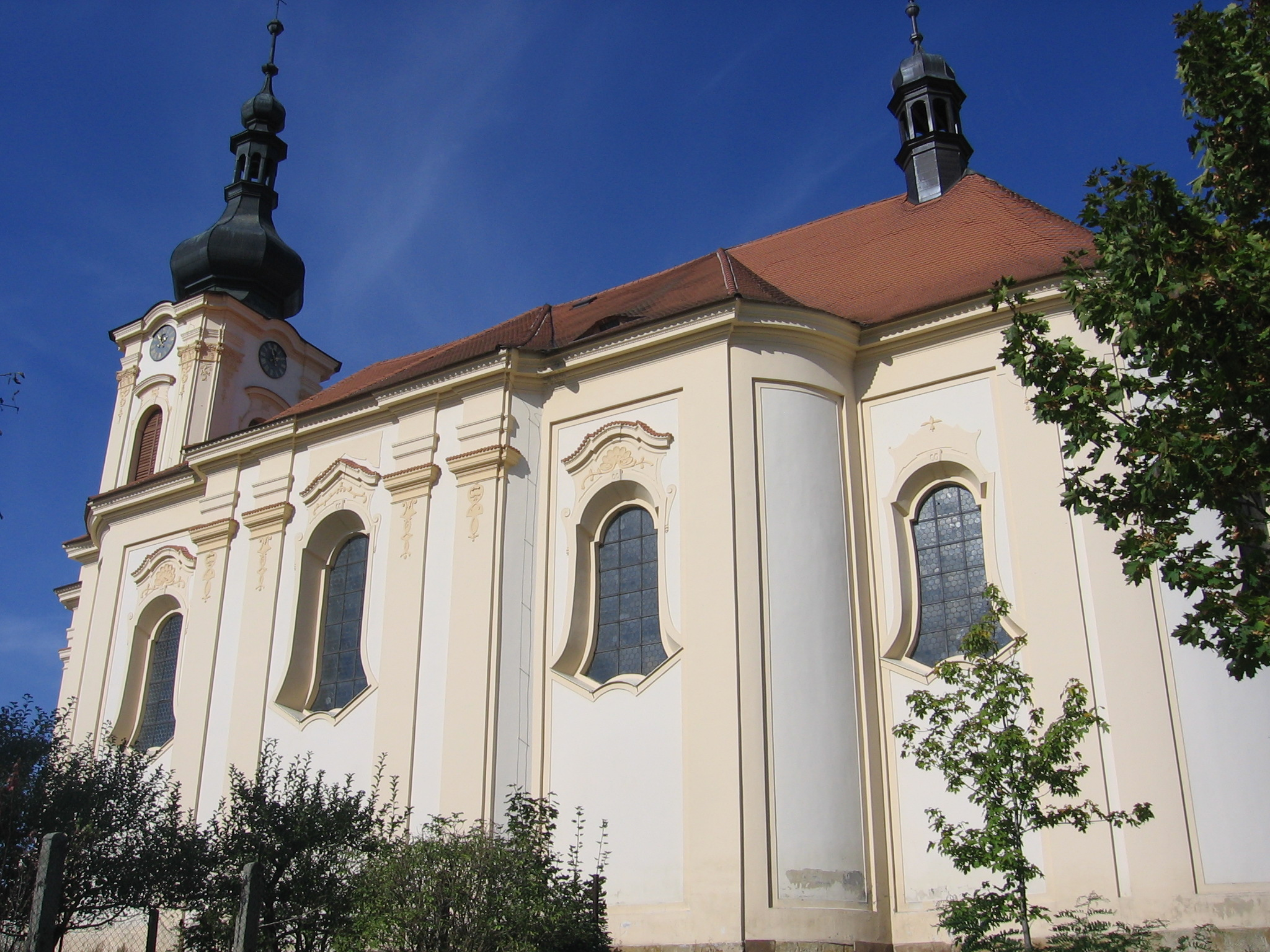 Město Touškov, church